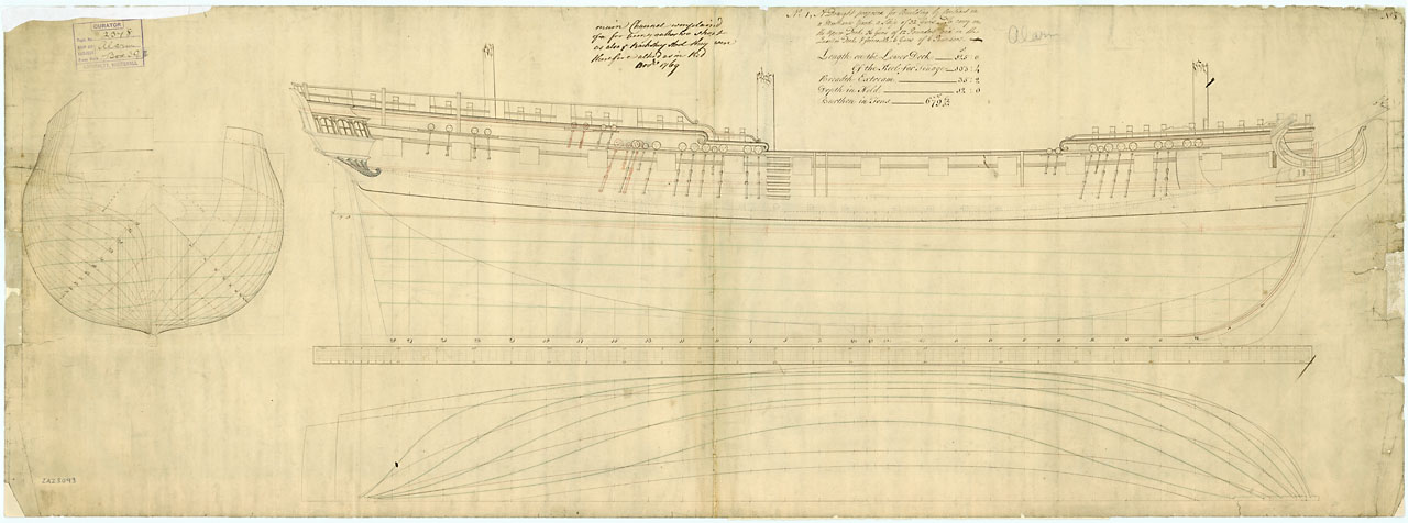 Body plan, sheer lines, and longitudinal half-breadth proposed (and approved) for Alarm (1758), Aeolus (1758), Montreal (1761), Niger (1759), Quebec (1760), Stag (1758), and Winchelsea (1764), all 32-gun Fifth Rate Frigates. The plan includes alterations, dated 1769, to the main channels and deadeyes.